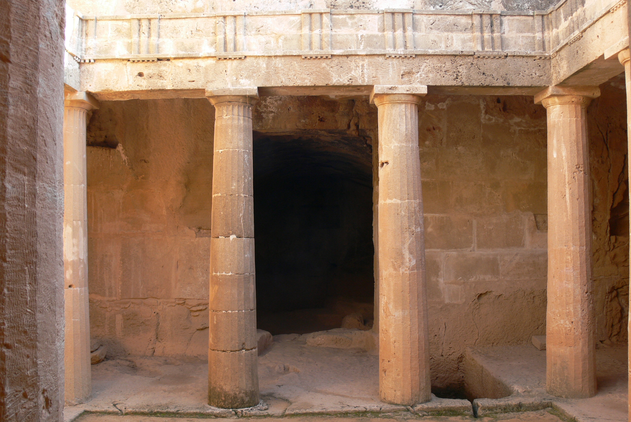 Paphos ( Cyprus ). Tombs of the Kings: Tomb 3 - Peristyl.